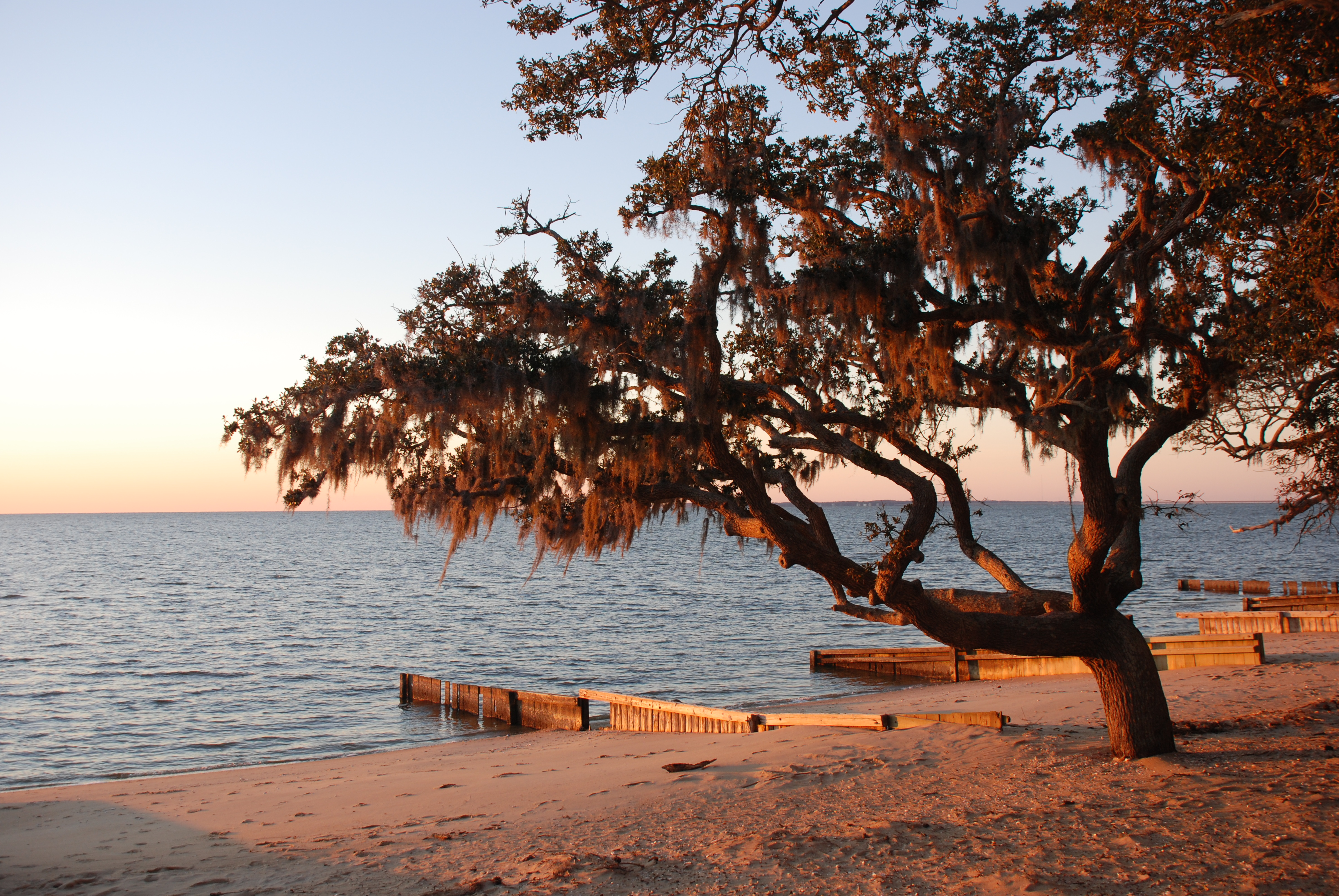 Trees and sunset at the beach in Colington Harbour on Colington Island, North Carolina.